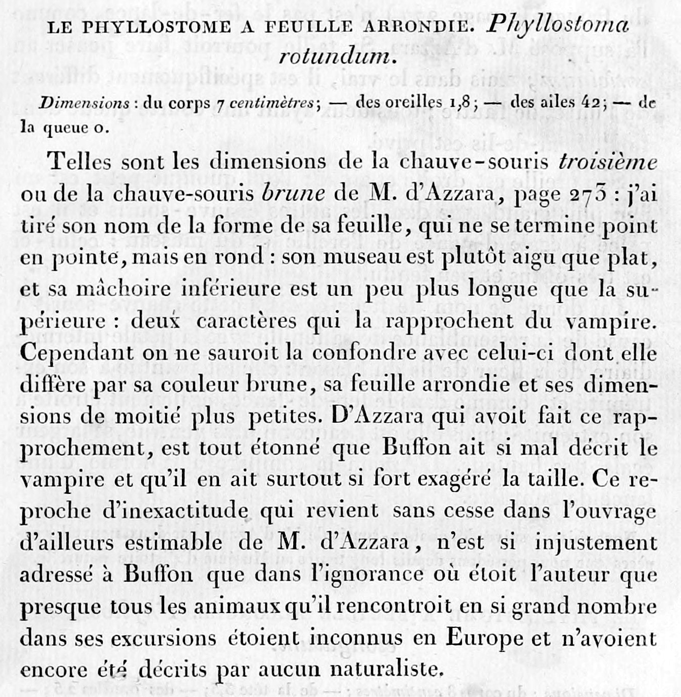 Protolog of Desmodus rotundus description